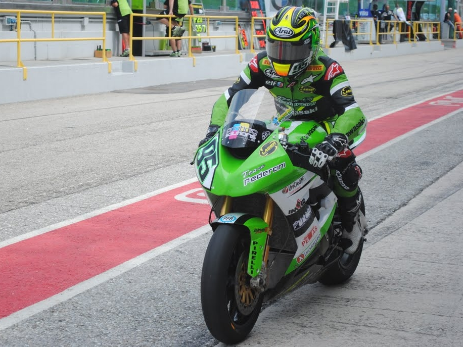 Roger Lee Hayden at 2010 Misano SBK round